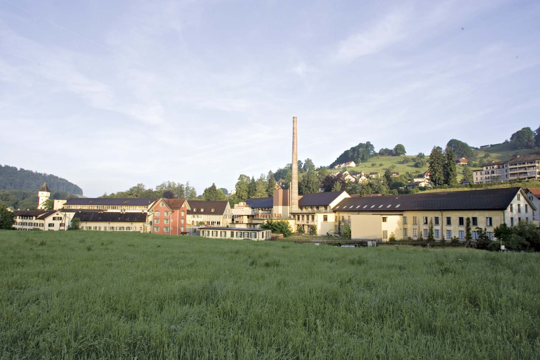 Panorama Bleiche